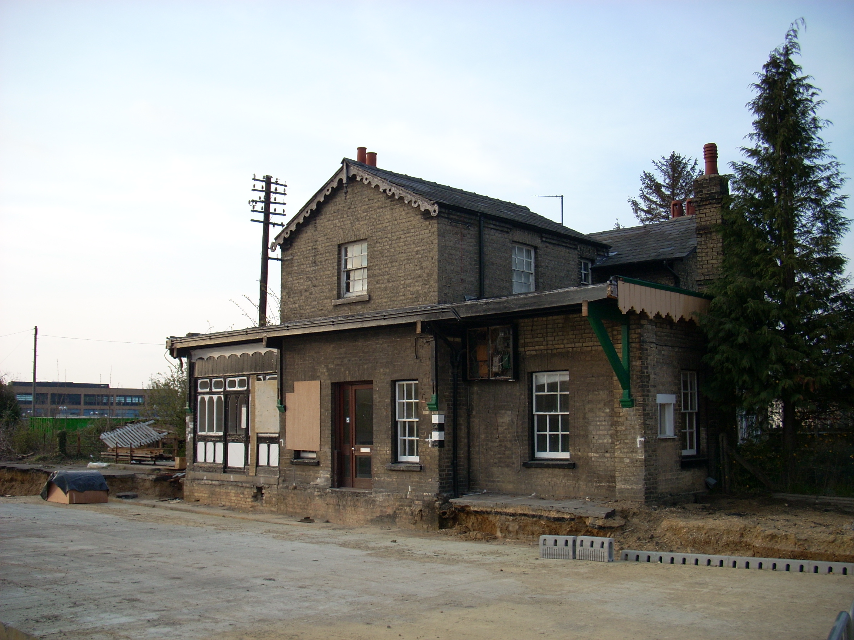 Former train station of Histon, Cambridgeshire